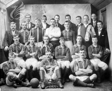 Aberdare Athletic F.C. photographed in 1900.